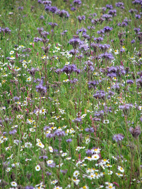 Lacy Phacelia (Phacelia tanacetifolia) growing in a so-called set-aside, an uncultivated area of ground where wild flowers are allowed to grow, beside a field of ripening wheat. See also 905816. Native to the arid southwest region of the USA and Mexico this is a versatile plant that has been introduced to Europe, where it is extensively used both as a cover crop and as bee forage. In agriculture, phacelia is often used as so-called green manure crop. Green manure crops are sown and allowed to grow until the land is needed again or until the plants have reached a certain growth stage. They are then cut down and ploughed into the soil. Left to decompose, they release vital plant nutrients back into the soil, hence fertilizing it. Phacelia is also used as an intercrop with corn and sugar beet or as an undercrop in orchards. For more information on green manure